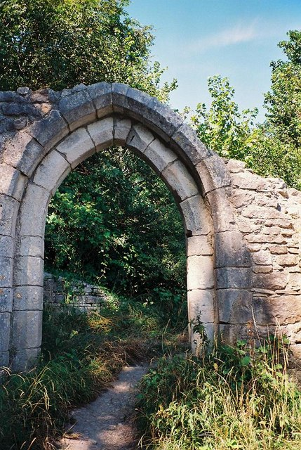 Arch at the western end of the ruin of St Andrew's parish church, Rufus Castle, Portland, Dorset